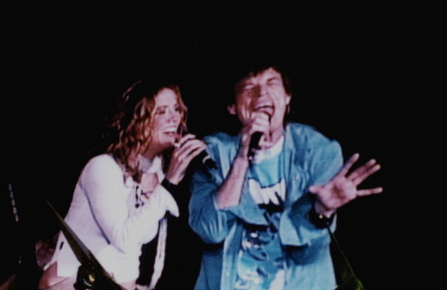 Sheryl Crow and Mick Jagger during the Licks TourCrow & Jagger